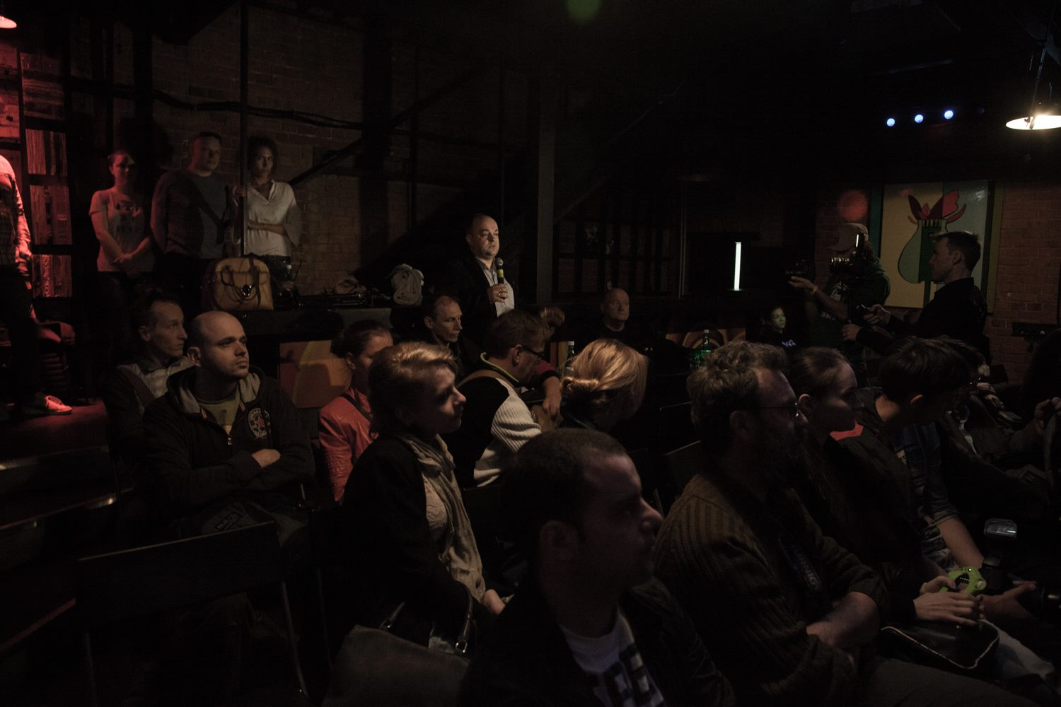 sky cinema festival rewarding